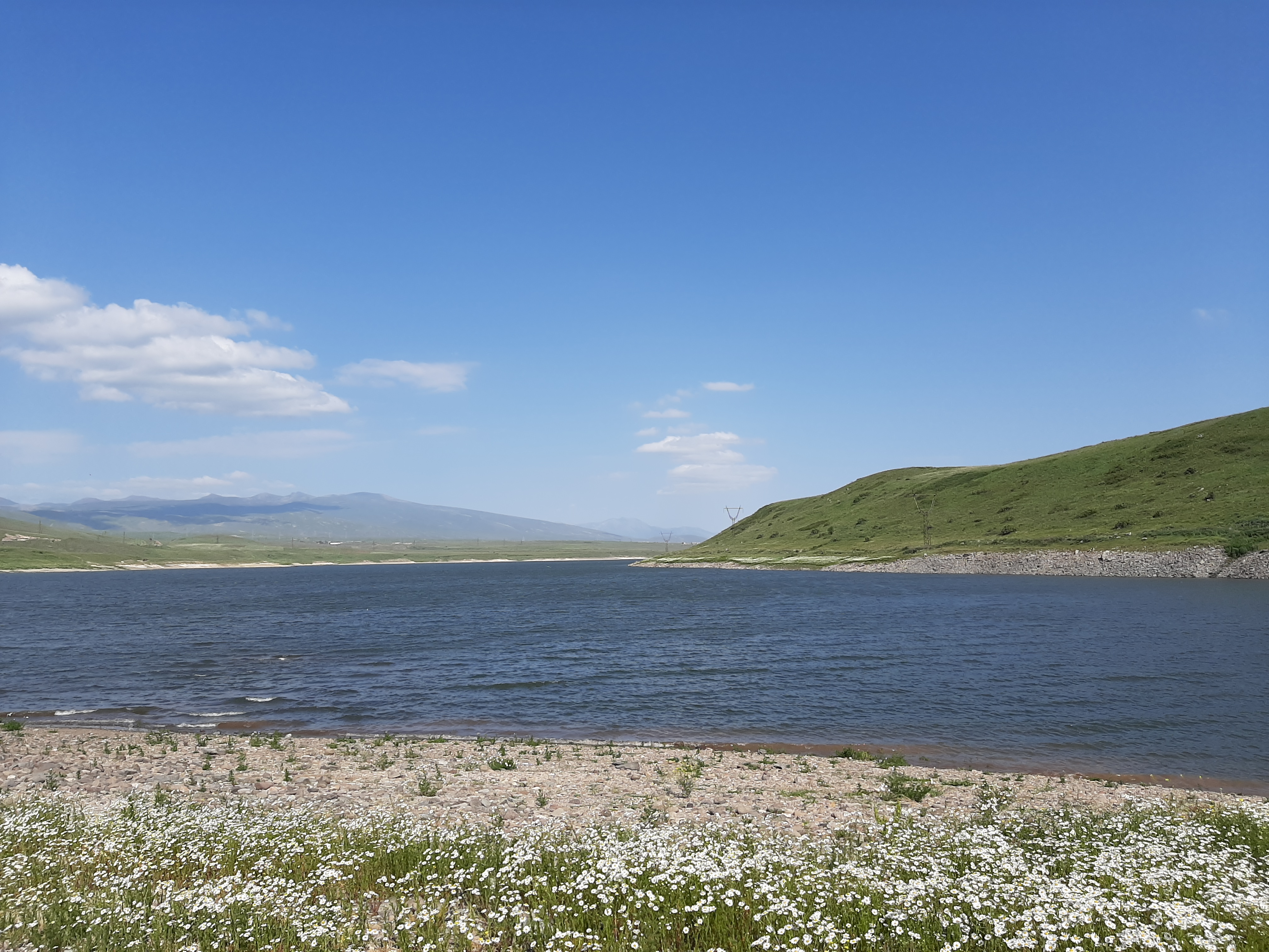 Vorotan Cascade